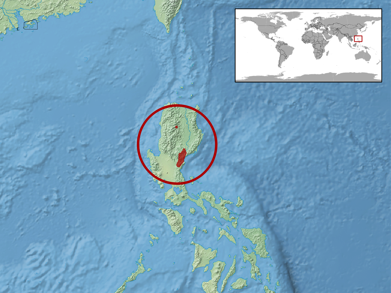 geographic distribution of Sphenomorphus tagapayo (IUCN) syn Parvoscincus tagapayo (RDB)